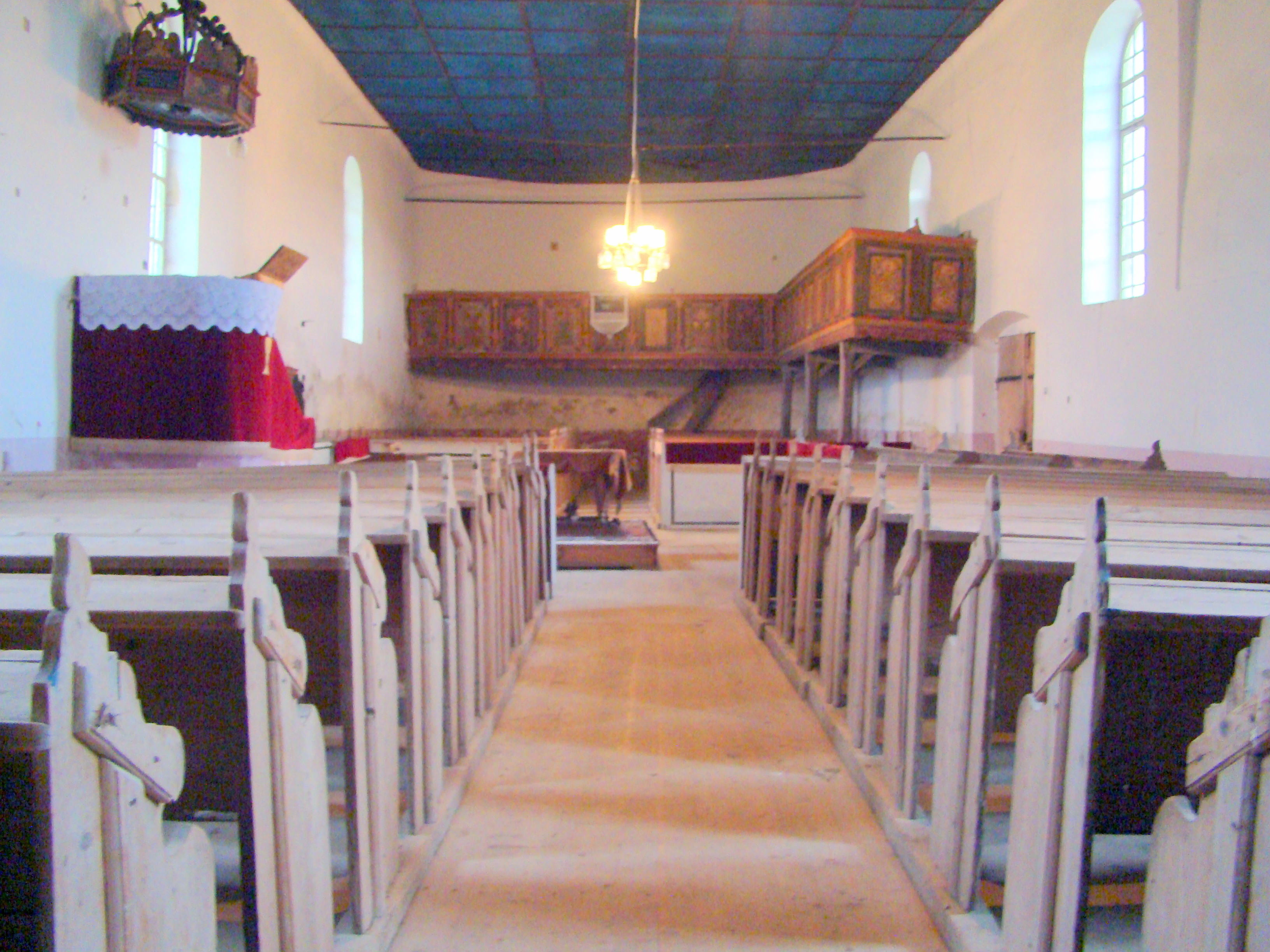 Fortified church in Cobor, Braşov County, Romania